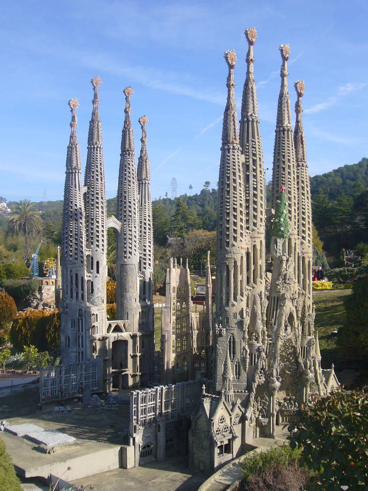 Scale model at the "Catalunya en Miniatura" miniature park : Sagrada familia. 13 000 hours of work were needed